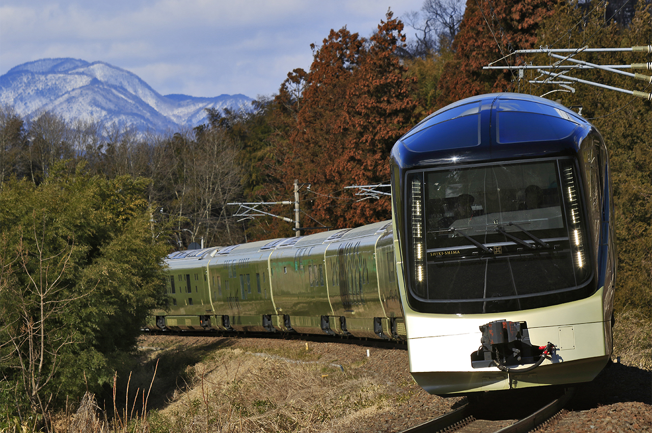 The JR East E001 series Train Suite Shiki-shima EDMU on a test run on the Tōhoku Main Line